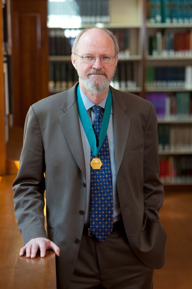 Photograph of chemist Robert H. Grubbs, recipient of the 2010 AIC Gold Medal, 9 April 2010, at Heritage Day, Chemical Heritage Foundation, Philadelphia, PA, USA.